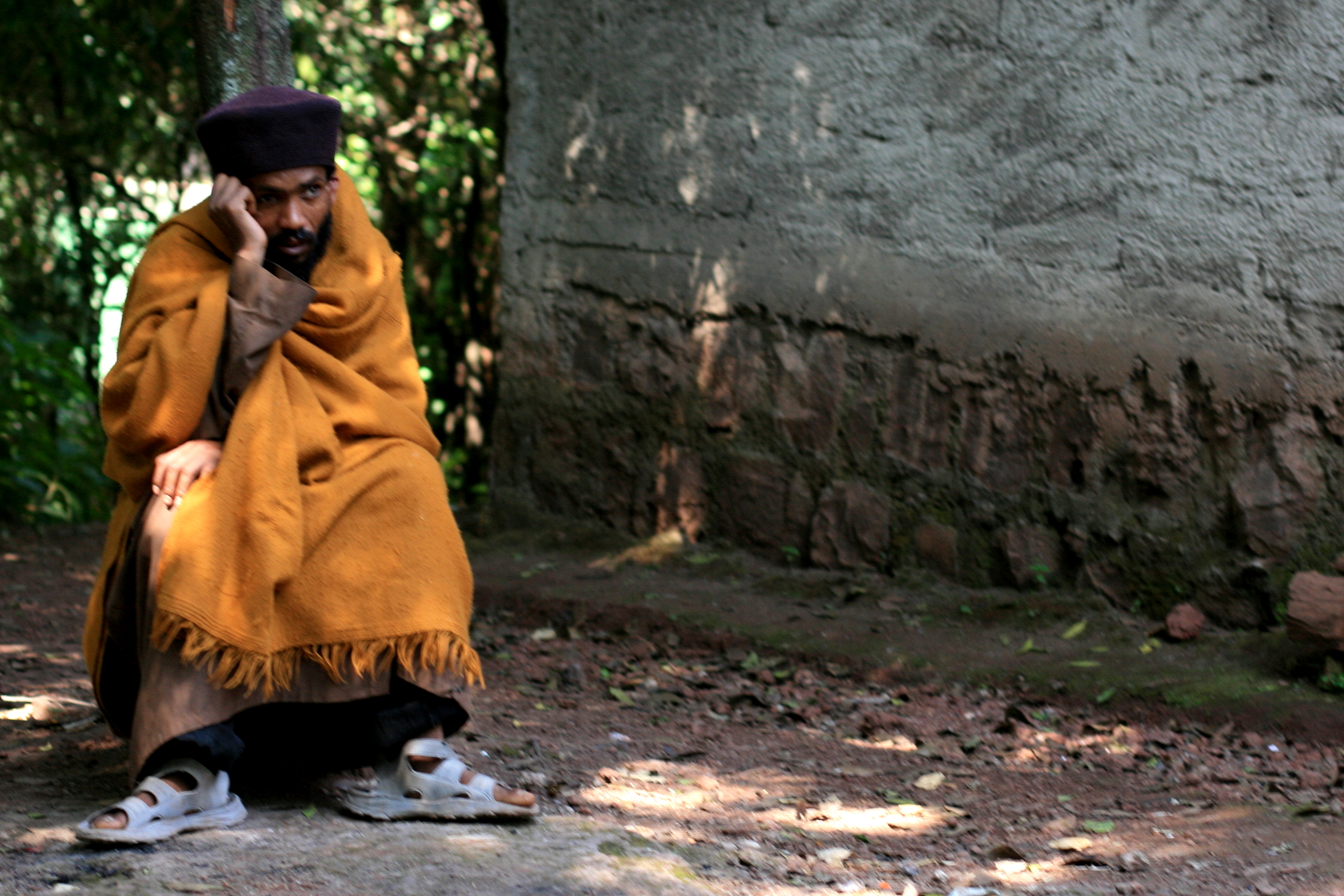 A monk at Entos Eyesus Monastery located in Bahir Dar near Lake Tana in the Amhara Region of Ethiopia.